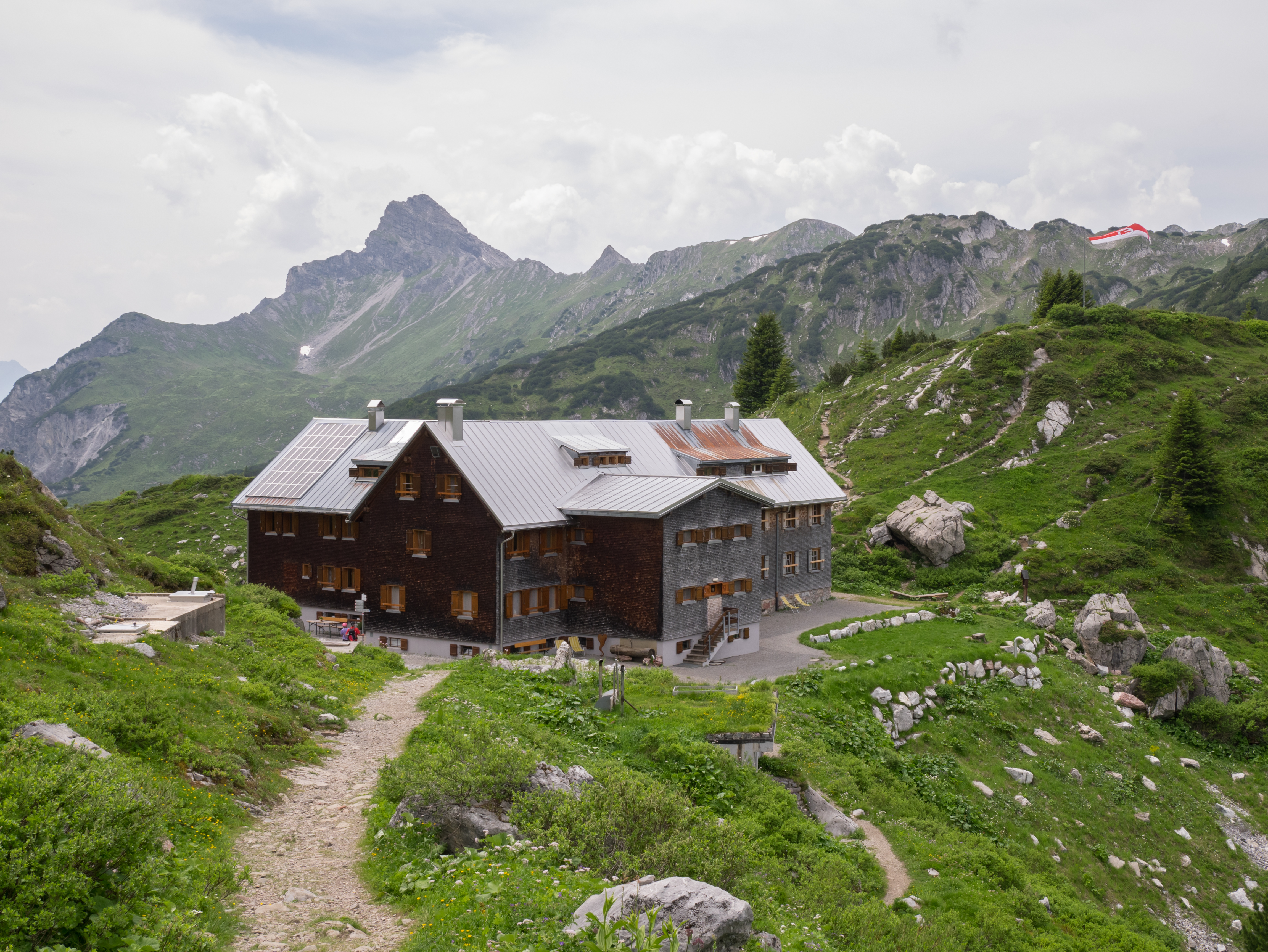 Mountain shelter Freiburger Hütte. Lechquellengebirge, Vorarlberg, Austria